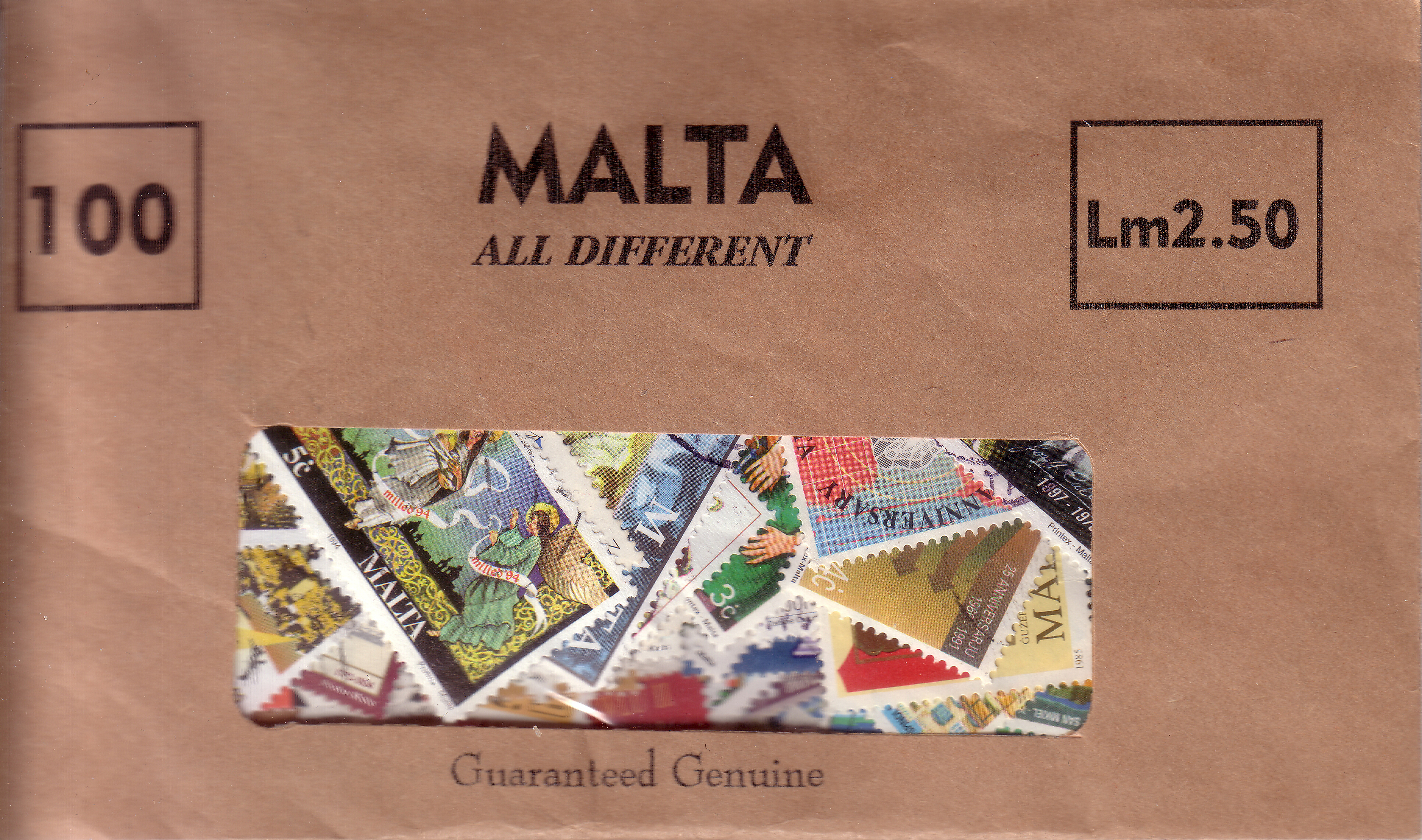 100 different cancelled postage stamps of Malta paper cover approval pack purchased in La Valletta, Malta, in 2001, 2.50 maltese liras.